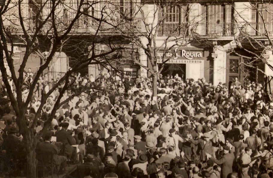 Homenatge de les colles sardanistes de Barcelona a Jaume Roca Delpech amb motiu de la seva exposició a la Sala Rovira de la Rambla de Catalunya. Gener de 1948.